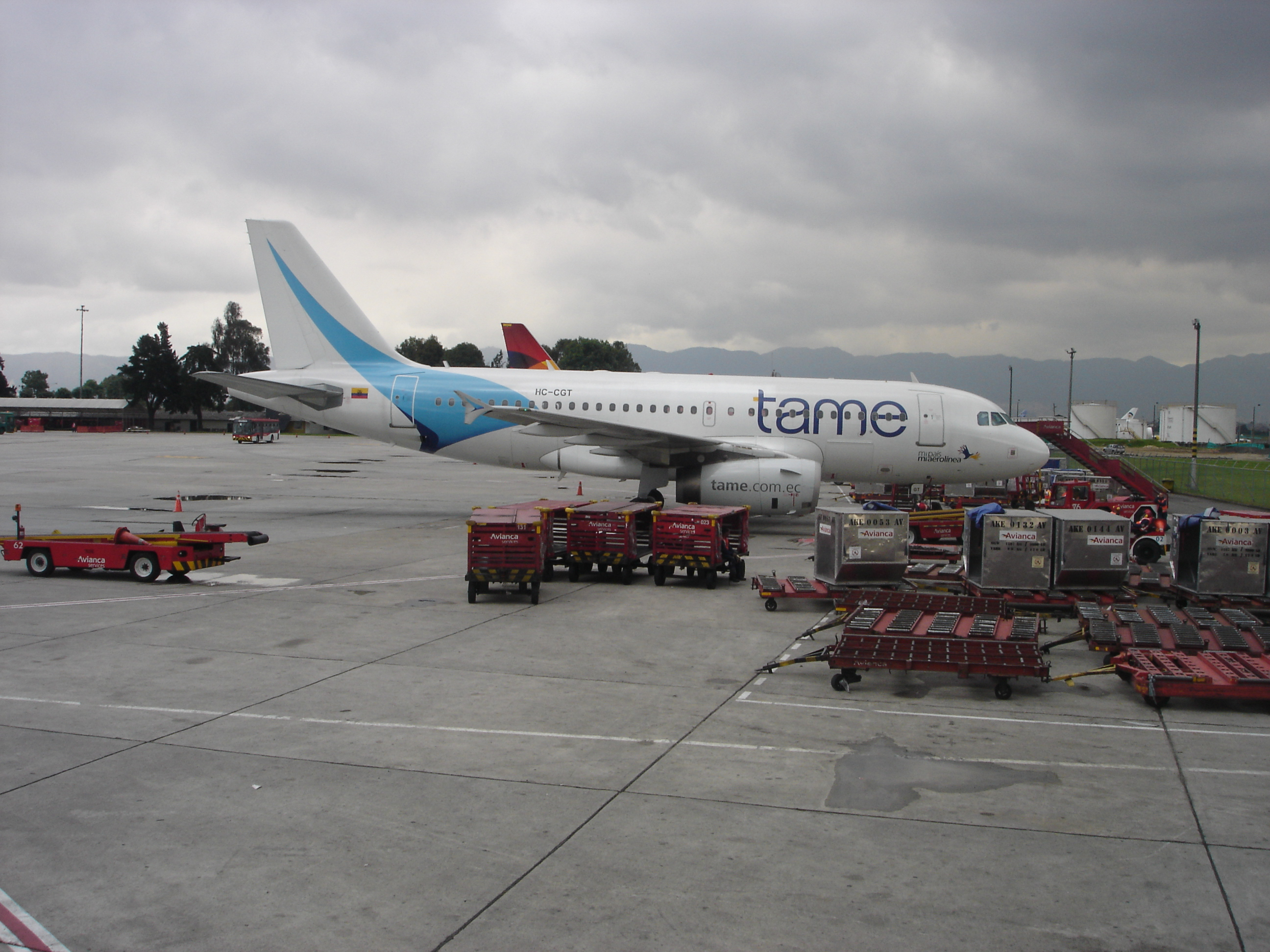 TAME aircraft at Bogotá El Dorado international airport